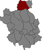 Location of Sant Llorenç Savall in Vallès Occidental